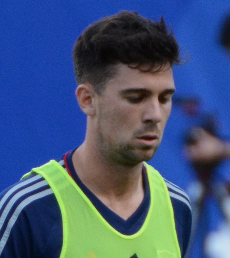 Taken at a U.S. Open Cup match between FC Cincinnati and Chicago Fire SC at Nippert Stadium in Cincinnati, Ohio on June 28, 2017.